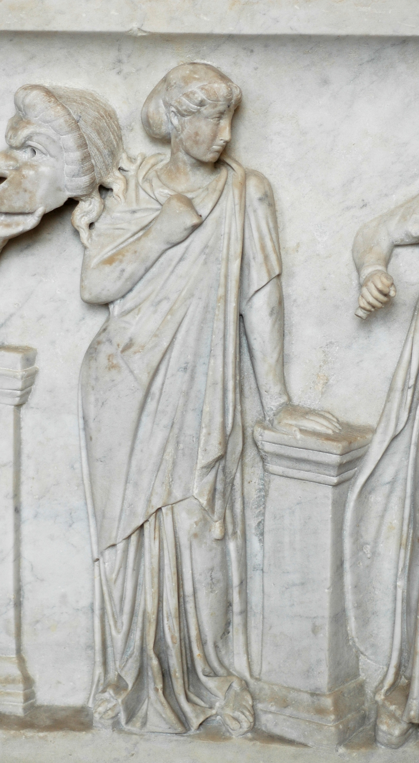 Terpsichore, muse of dancing. Detail from the “Muses Sarcophagus”, representing the nine Muses and their attributes. Marble, first half of the 2nd century AD, found by the Via Ostiense.